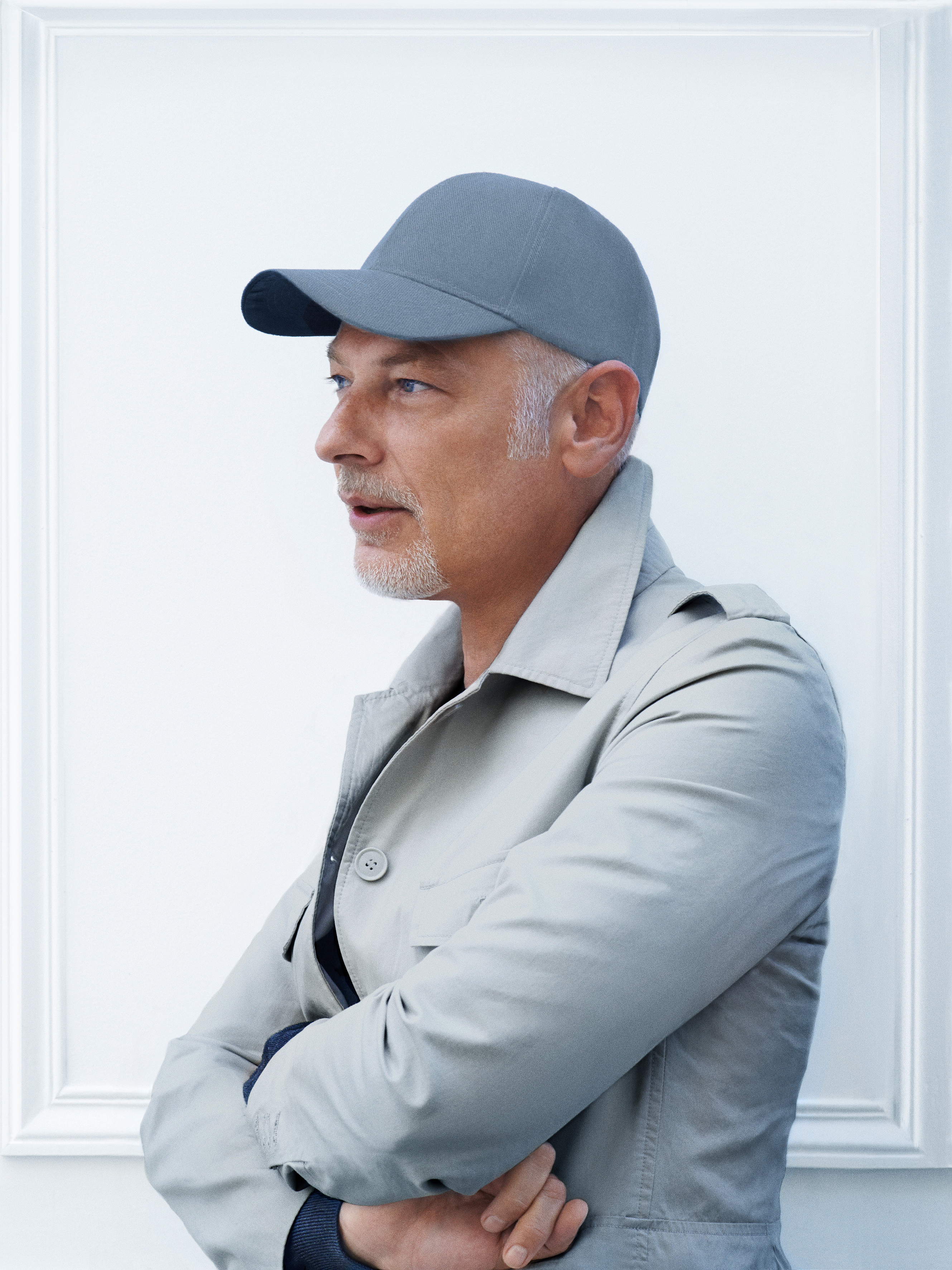 Portrait of Nicolas Jurnjack